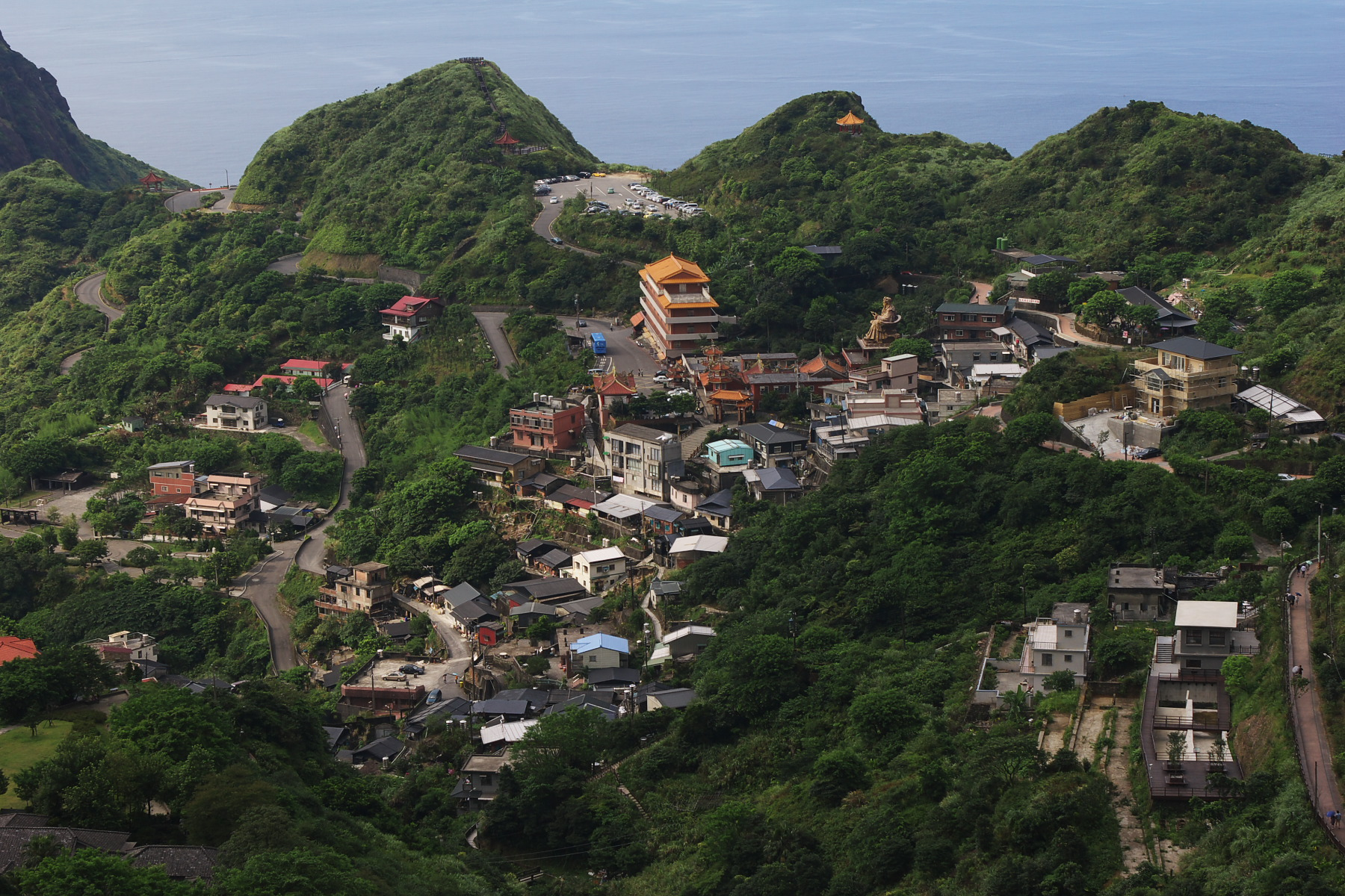 The view is Jinguashi from Jioufen overlook.中文（中国大陆）: 从九份远眺金瓜石。